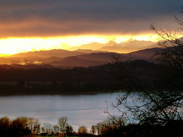 Lago di Varese seen from the Comerio (sunset) picture taken by user:Idéfix december 9, 2004